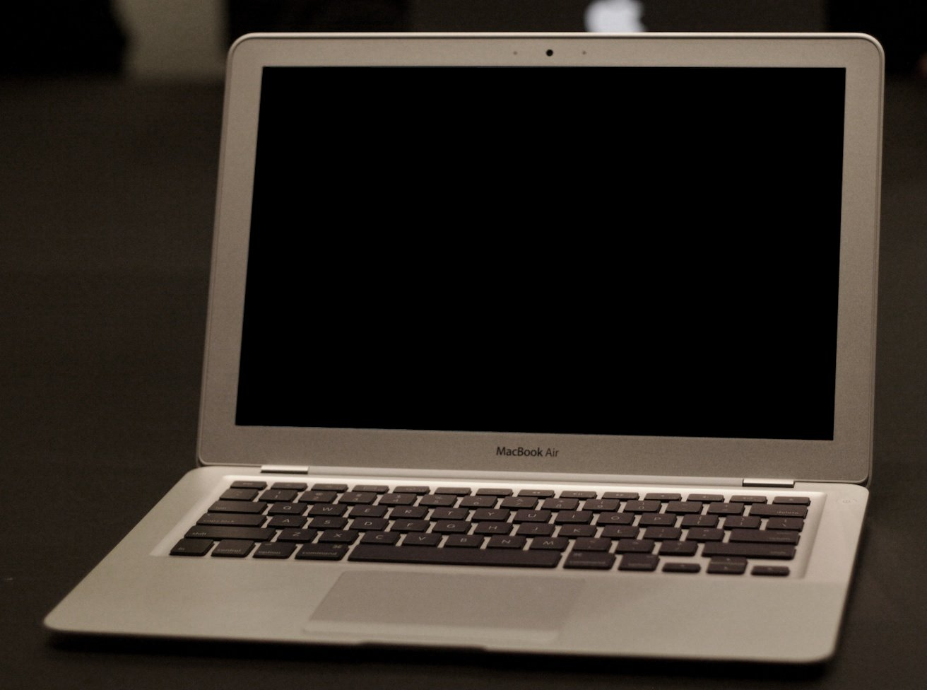 MacBook Air